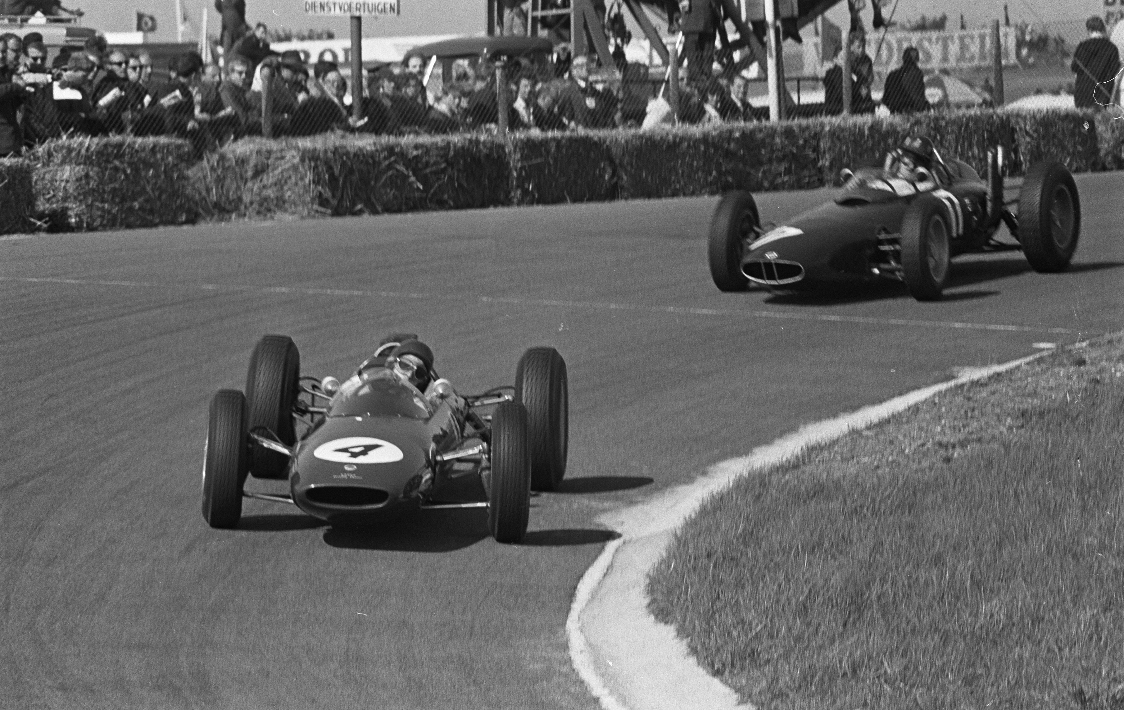 Jim Clark (Lotus 25; #4) is chased by Graham Hill (BRM P57; #17) during the 1962 Dutch Grand Prix at the Zandvoort circuit.